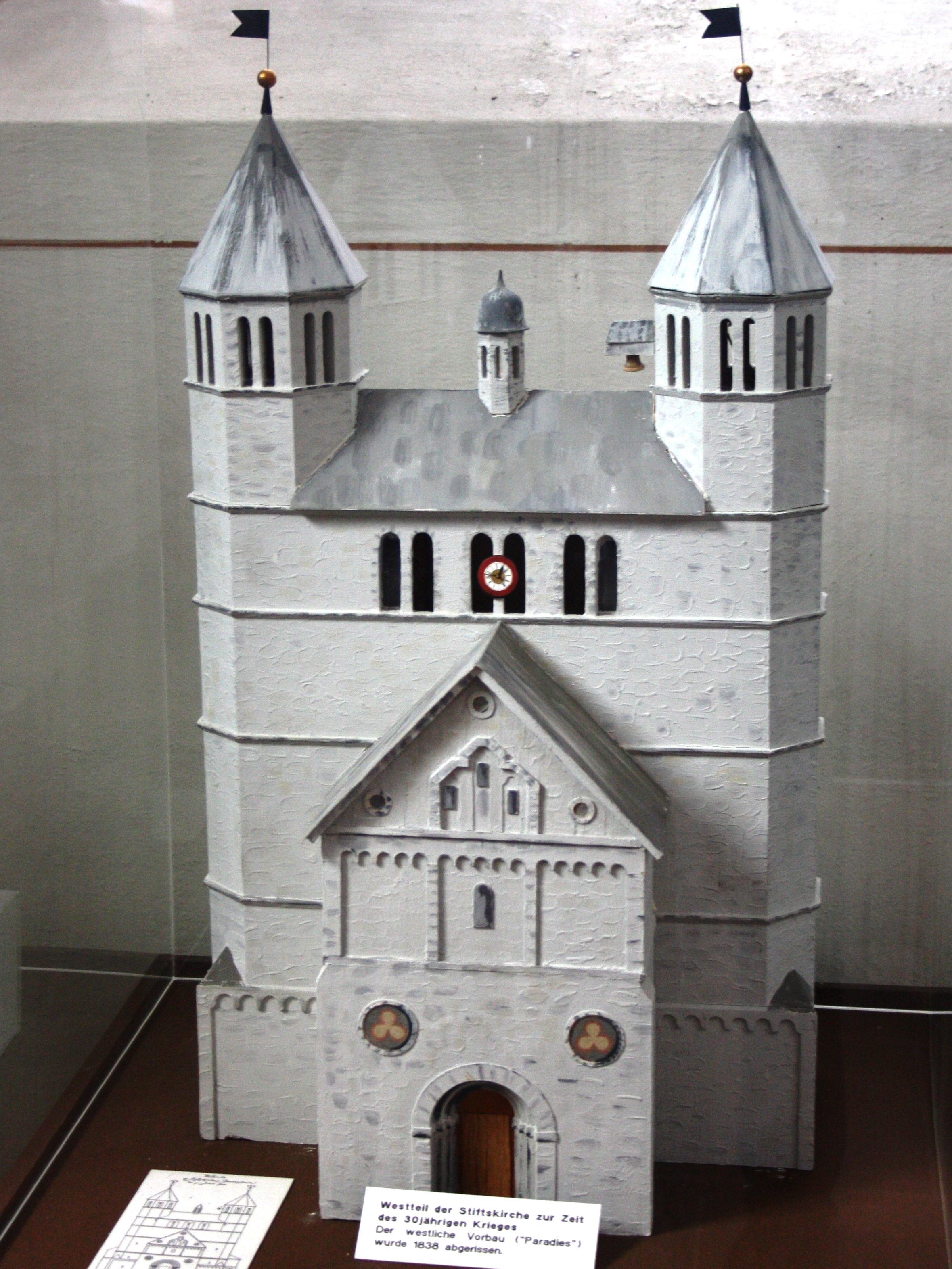 Model of the abbeychurch in Gandersheim, Germany, with the narthex destroyed in 1838.